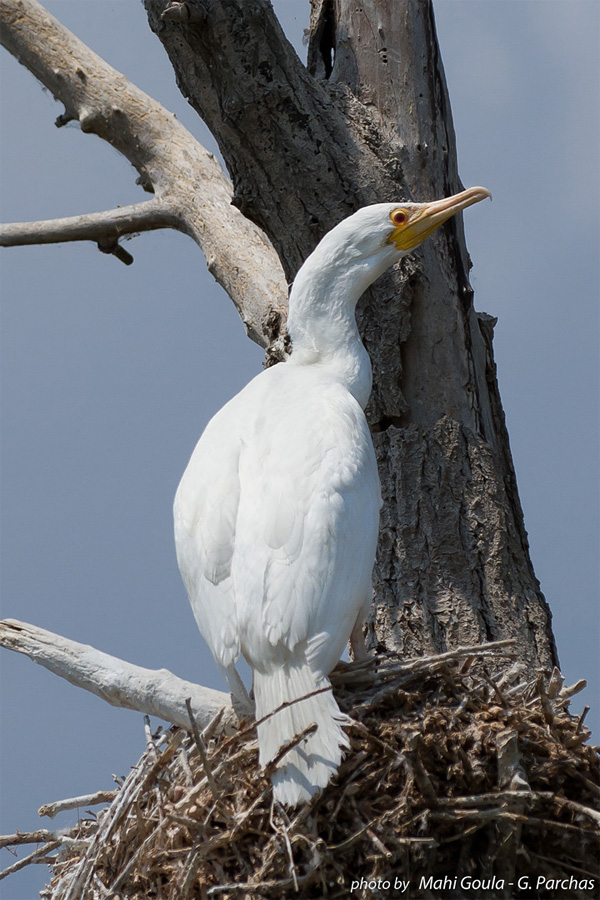 Phalacrocorax carbo Albino